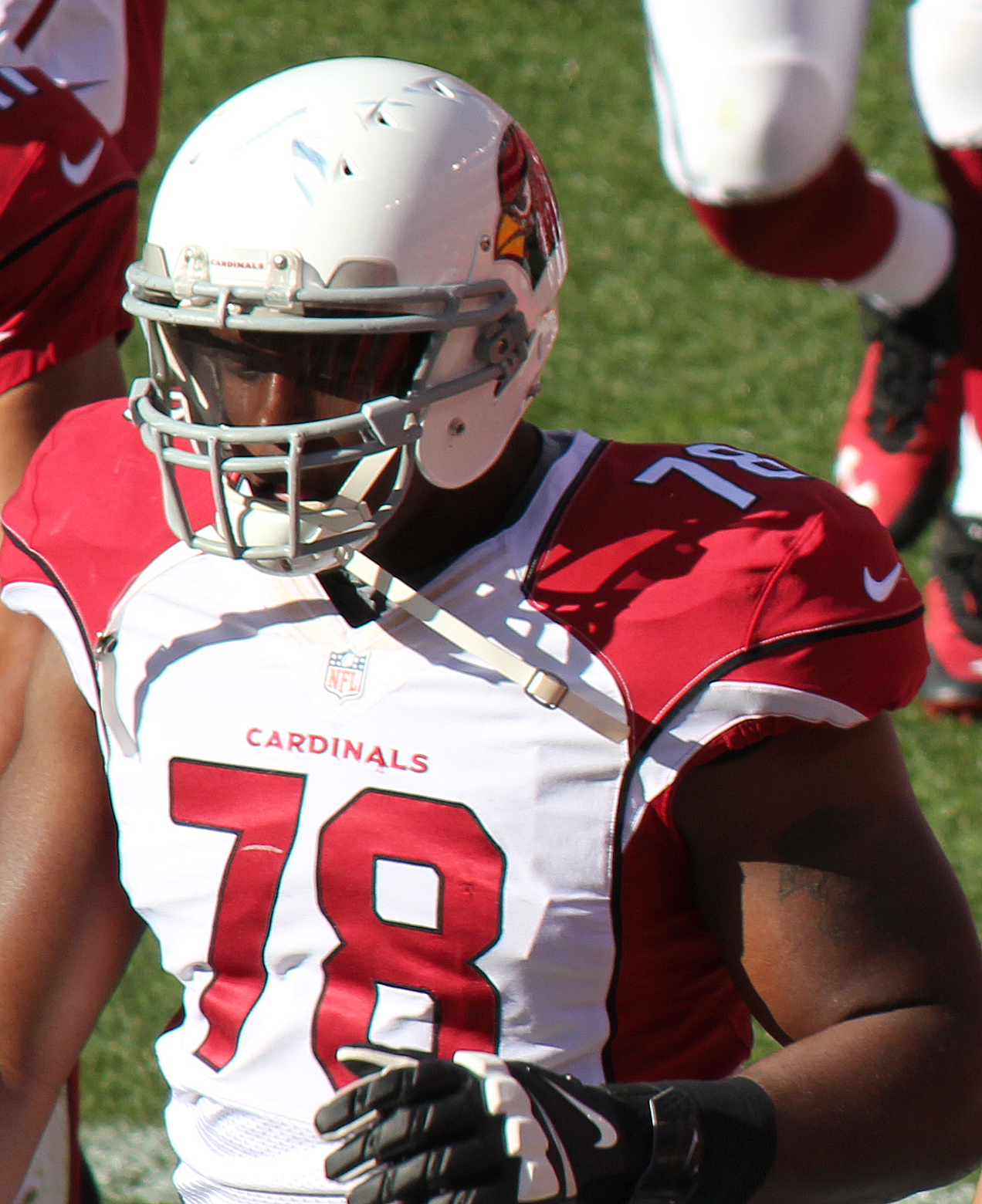 Earl Watford, a player on the National Football League.